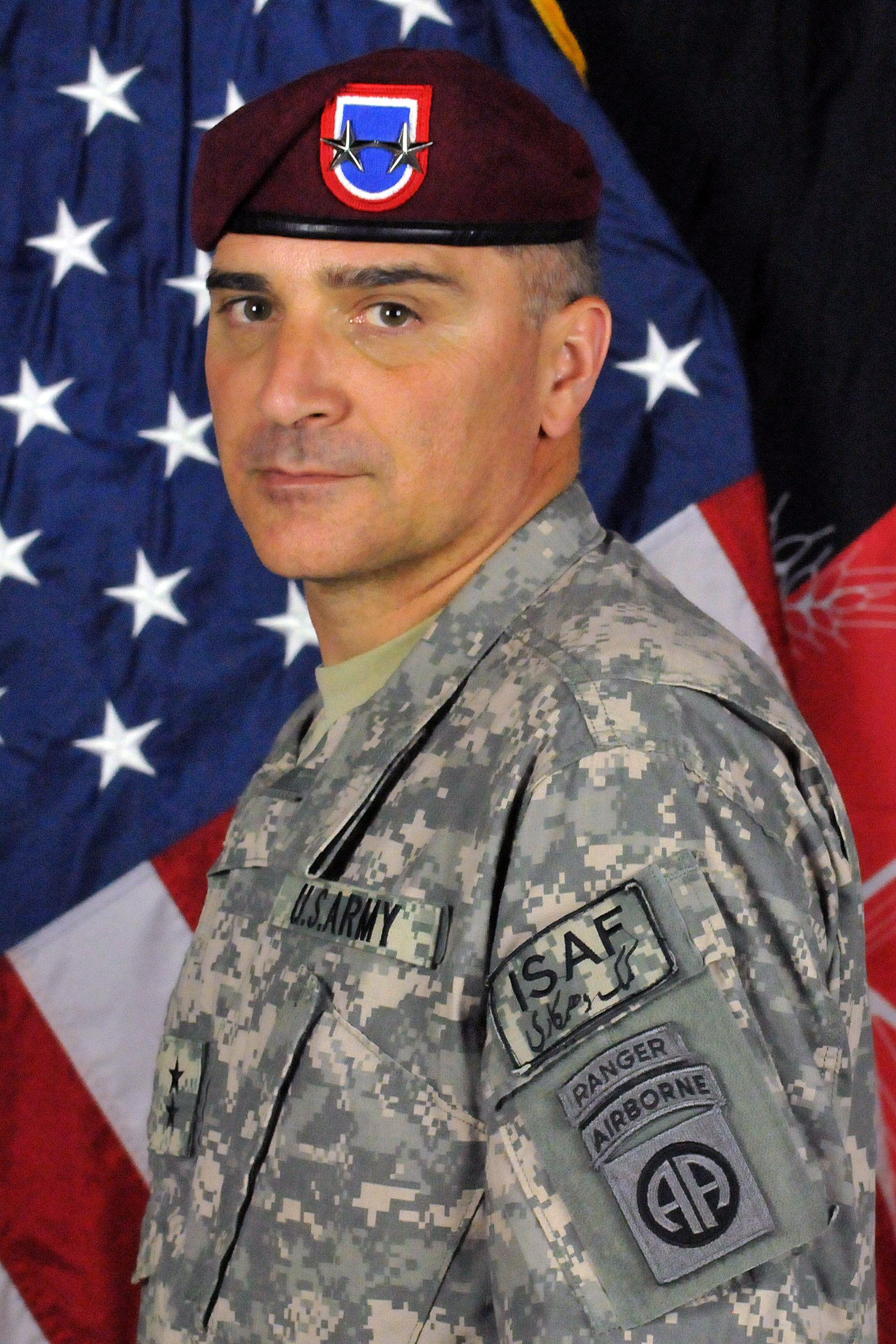 Maj. Gen. Curtis Scaparrotti.